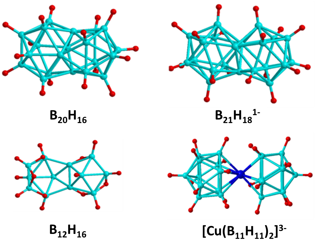 condensed polyhedral boranes and metallaborane